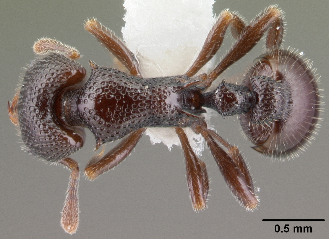 Dorsal view of ant Epopostruma natalae specimen casent0010815.